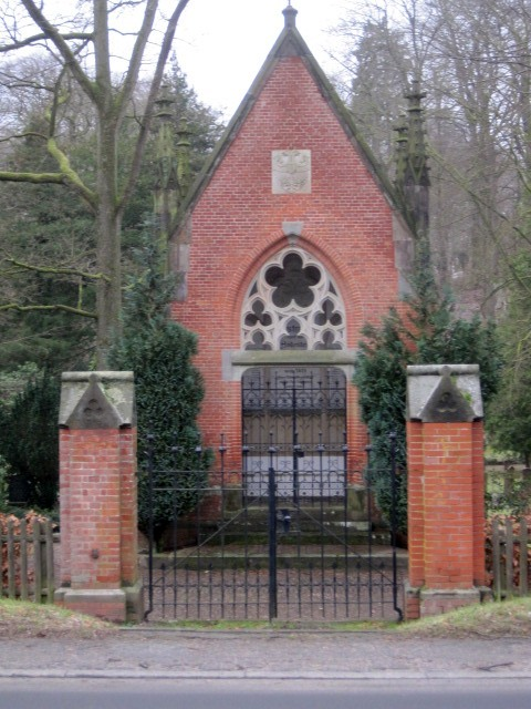 Chapel for Austrian soldiers 1864 in Schleswig.